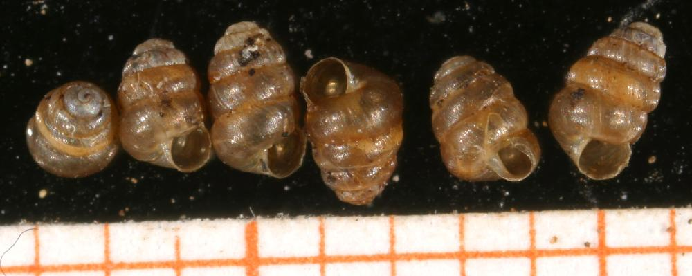 Columella edentula. Scale is in mm. Locality: Germany: Mecklenburg-Vorpommern, Steinort near Schaalsee. Date: 17 September 2005.